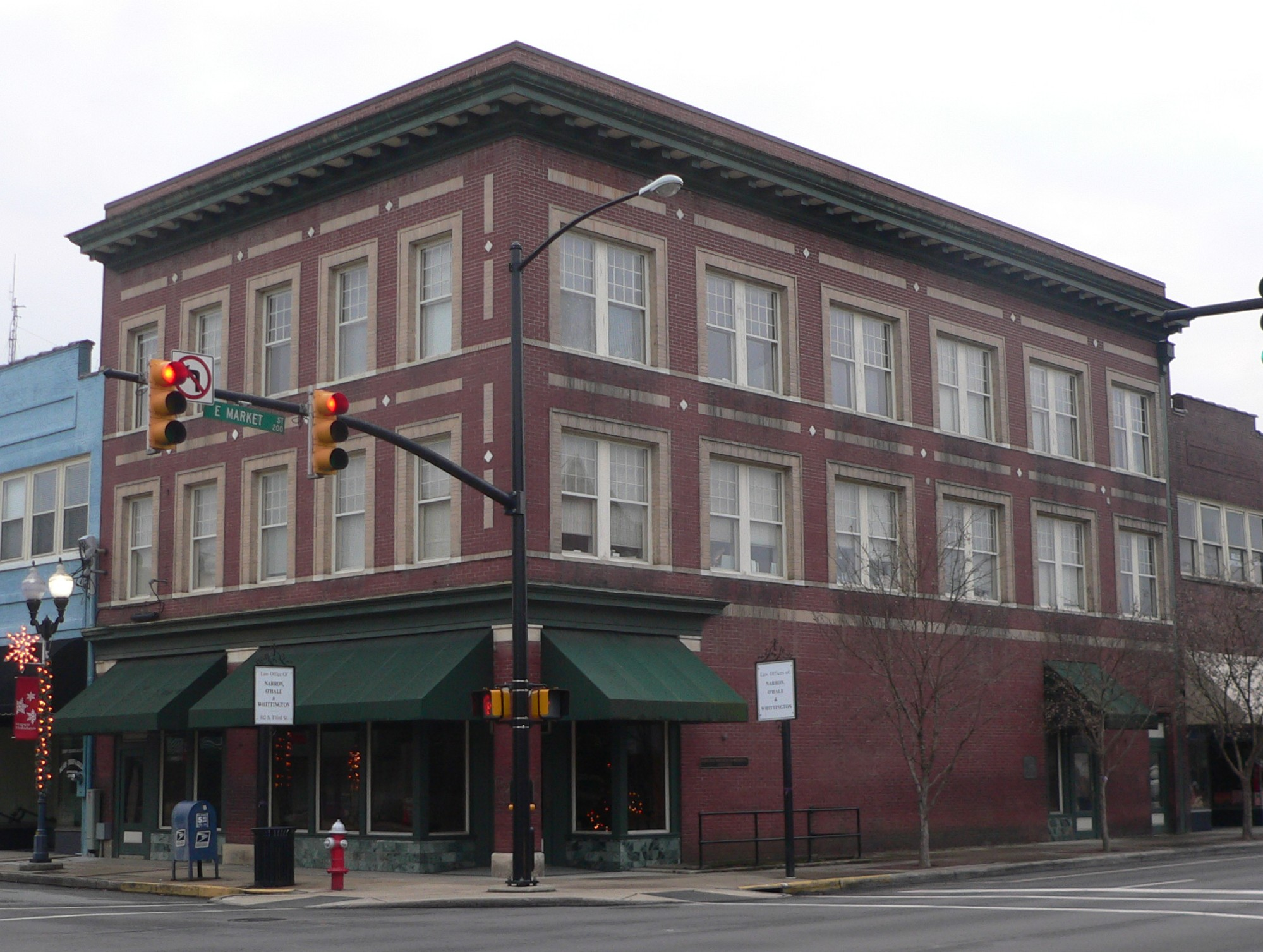 Hood Brothers building, located at 100-104 S. 3rd Street (southwest corner of 3rd and Market Streets) in Smithfield, South Carolina; seen from the north-northeast.